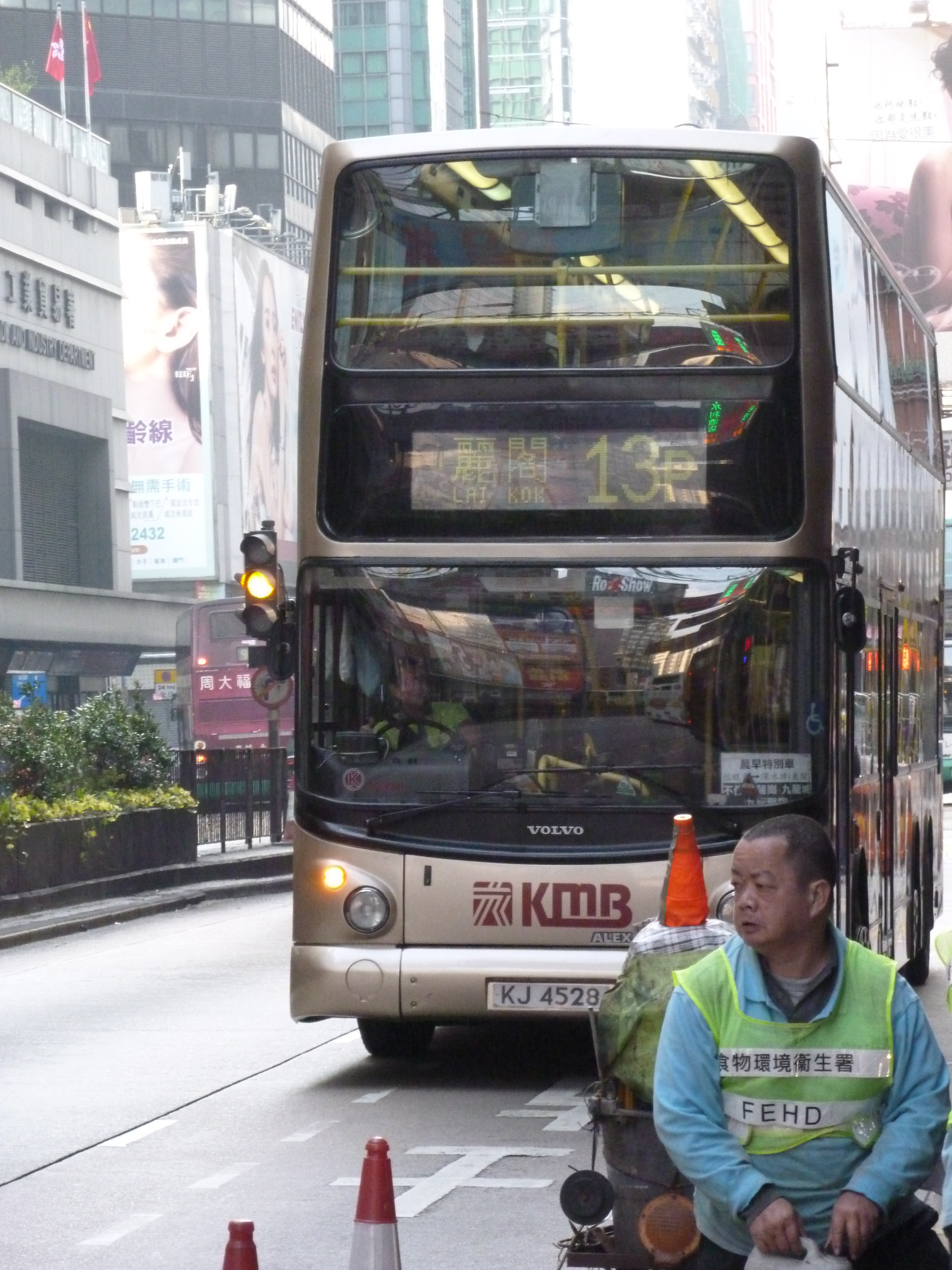 KMB Route 13P (Nathan Road, Mong Kok)中文（香港）: 九龍巴士13P線 (旺角彌敦道)